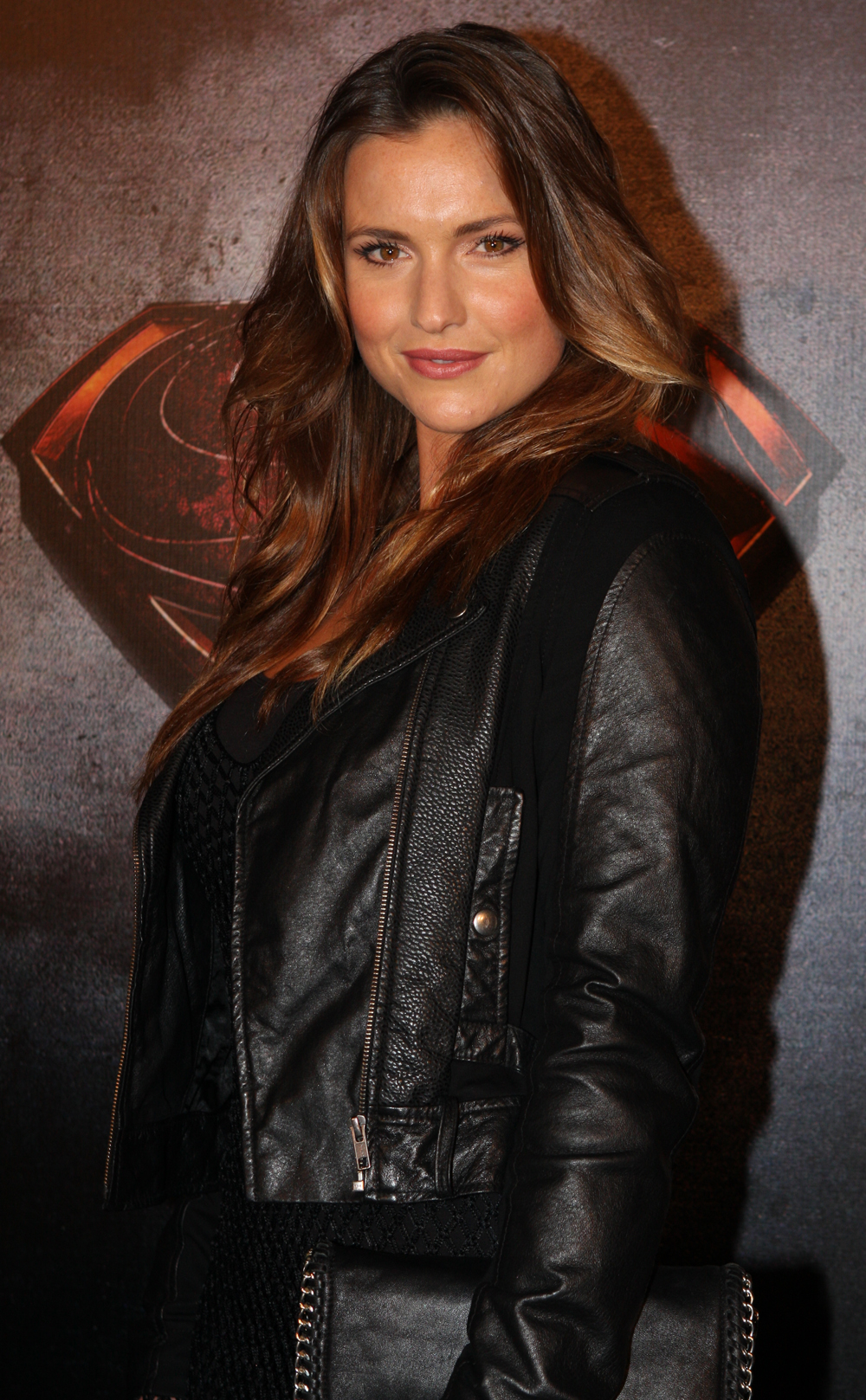 Man Of Steel red carpet movie premiere, Sydney